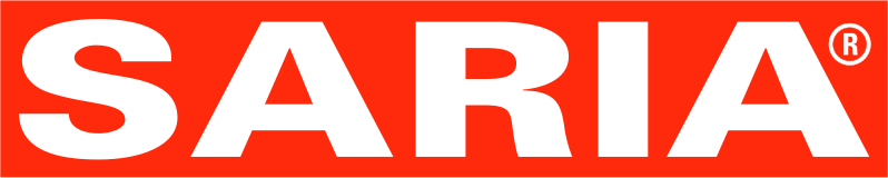 Logo of SARIA Bio Industries